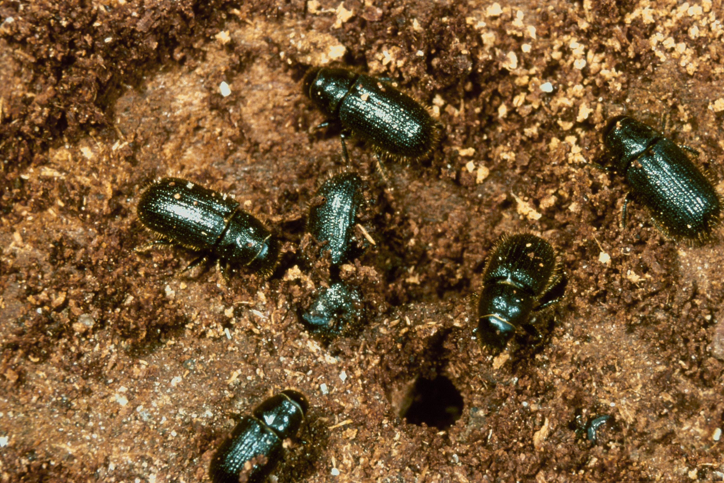 Dendroctonus micans on Picea abies